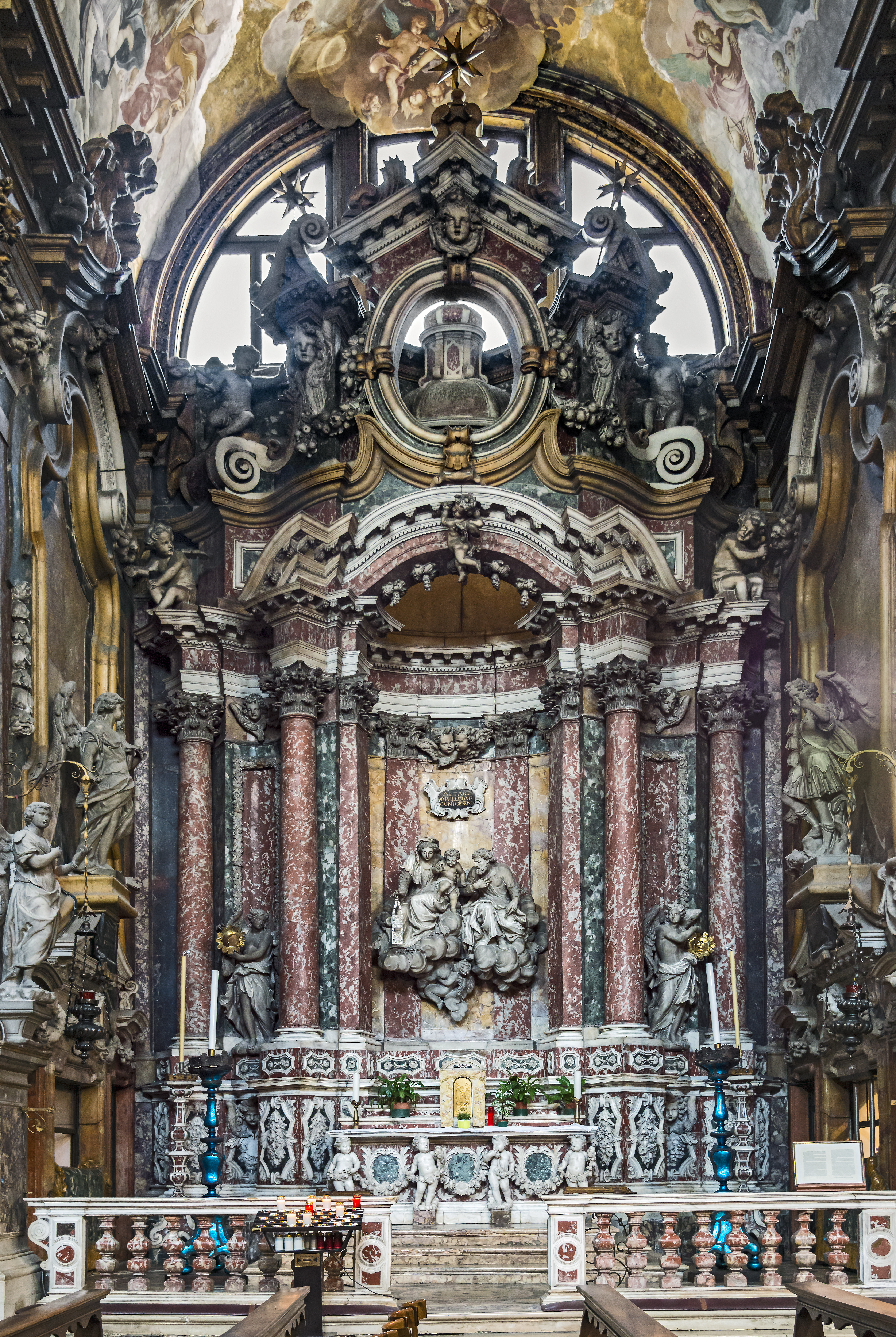 Church Santa Maria degli Scalzi Venice. Chapel Manin; Here is buried the last doge of Venice, Ludovico Manin, died on 23 October 1802. The chapel was built by brother Jacopo Antonio Pozzo. The altarpiece shows a sculpture of "The Virgin and Child and St. Joseph in the Clouds" by Giuseppe Torretti, the author of the two angels. On the side walls of the chapel: statues, Archangel Michael and Archangel Gabriel, from the same Giuseppe Torretto. The two blue glass candelabras are Murano glassworks.